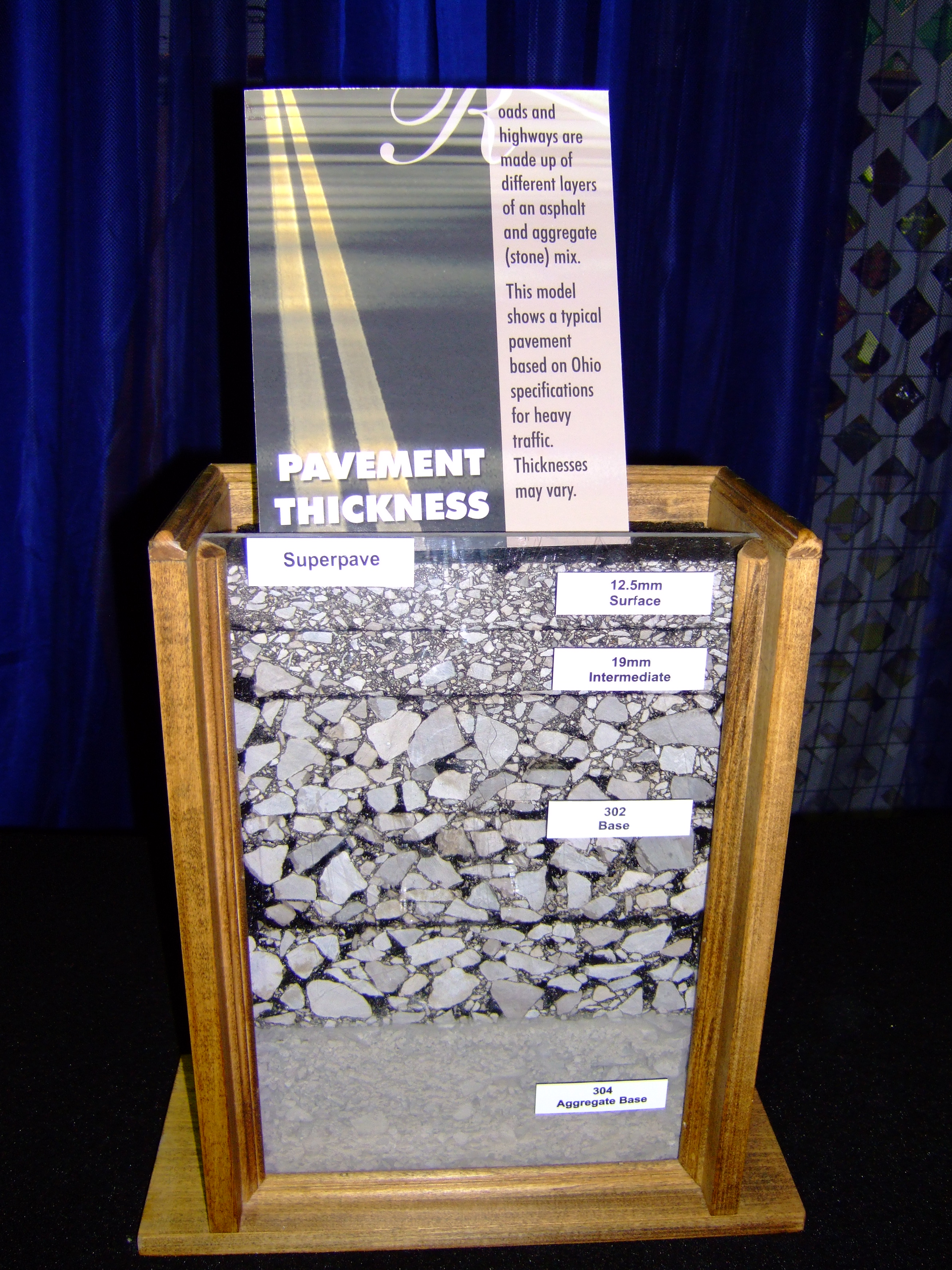 A stratum of the materials used in modern road construction for a heavily traveled highway. Photo taken at the Ohio State Fair. Self made photo.